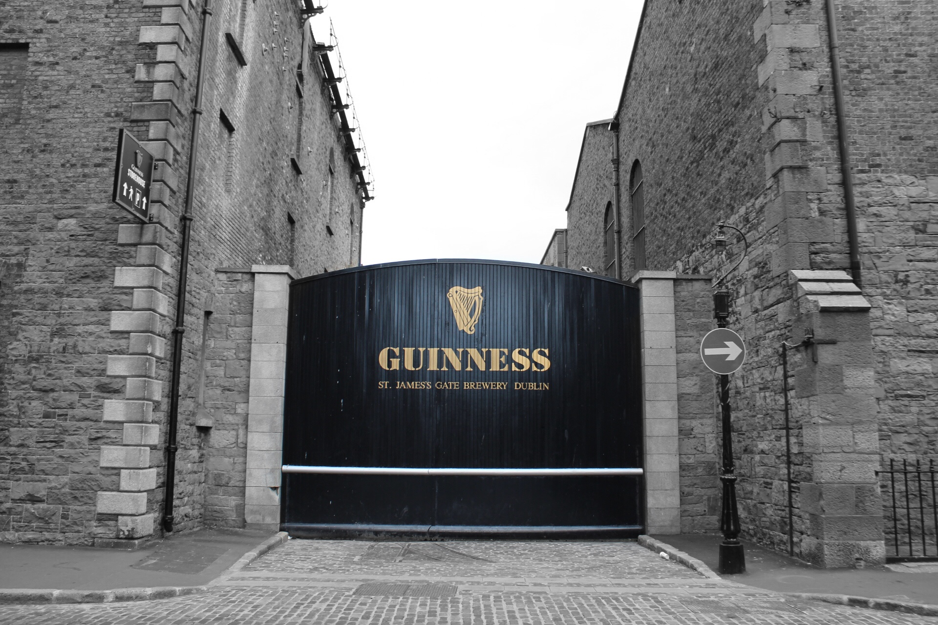 Guinness Factory in Ireland